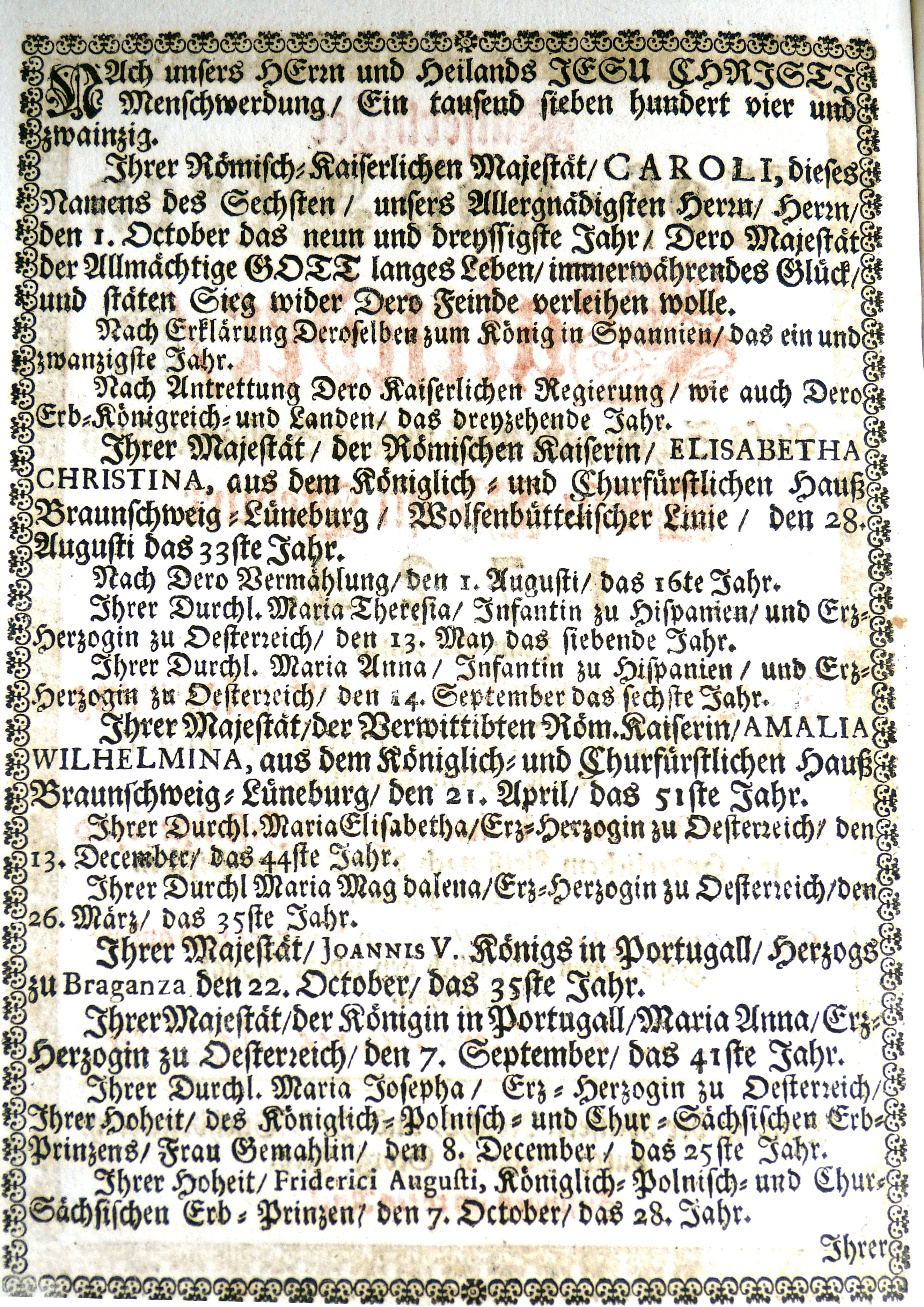 Calendar of the Imperial Court, printed in Vienna by Johann Georg Frey in 1724 - Different chronologies of the year 1724 based on rulers' eras and events.